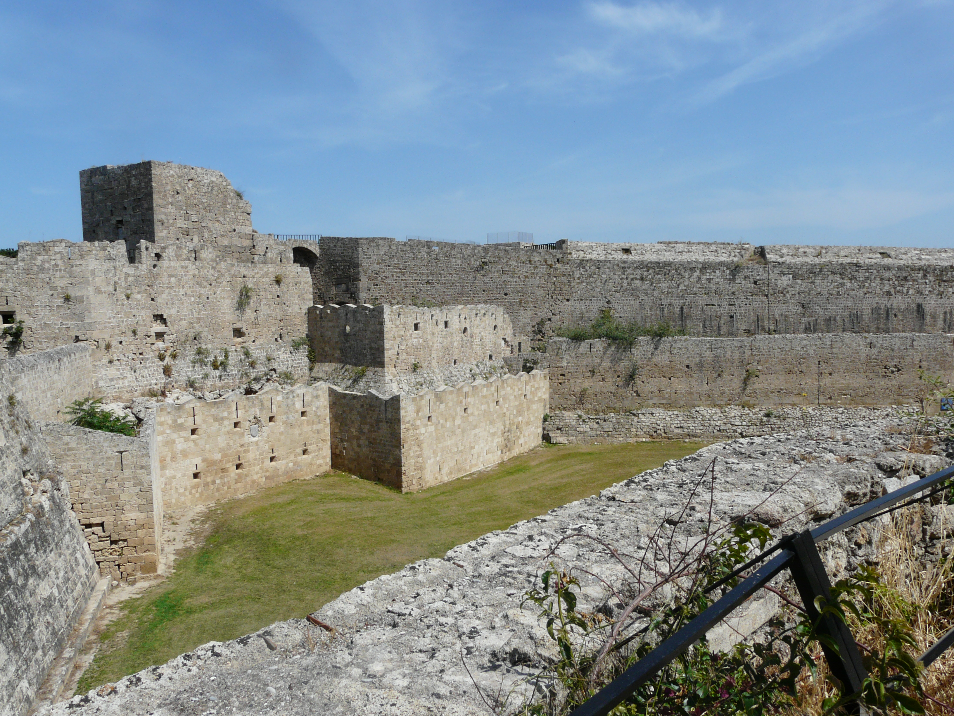 City of Rhodes.